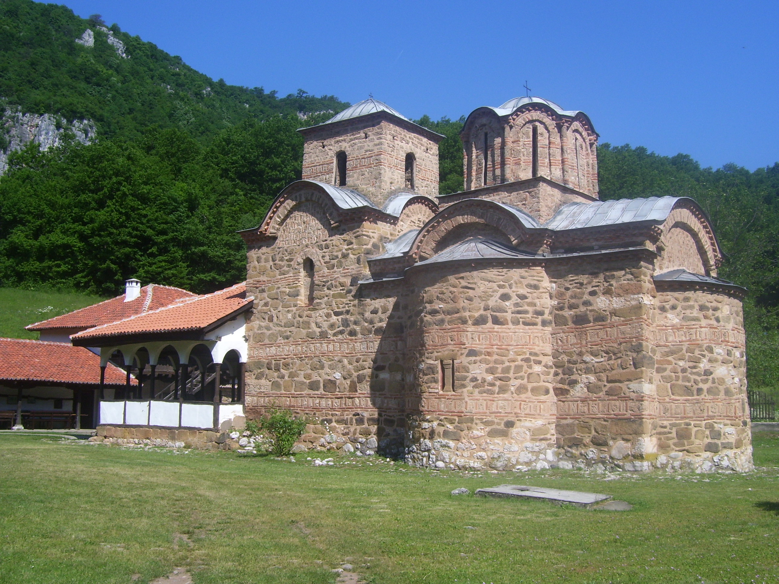 Church in Poganovo monastery.